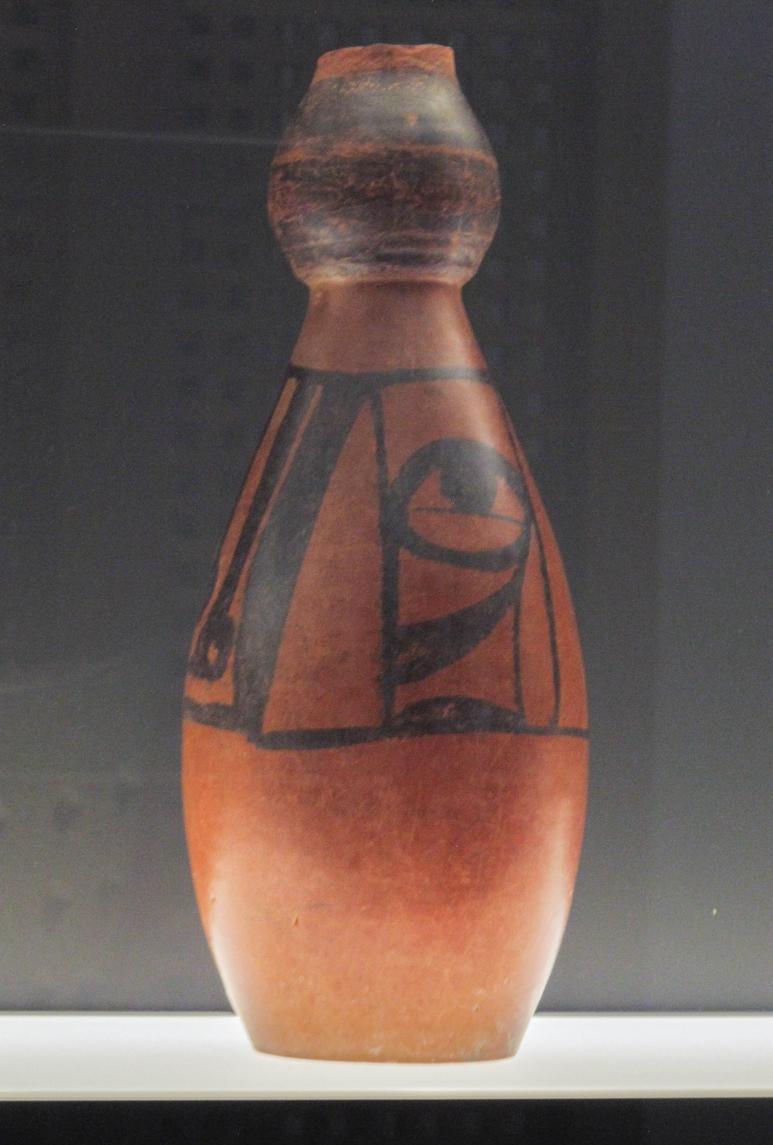 Bottle with abstract motifs. Gansu, Henan or Shaanxi. Yangshao culture, Banpo phase, 5 th. mill. BC. Rietberg Museum, Zurich.